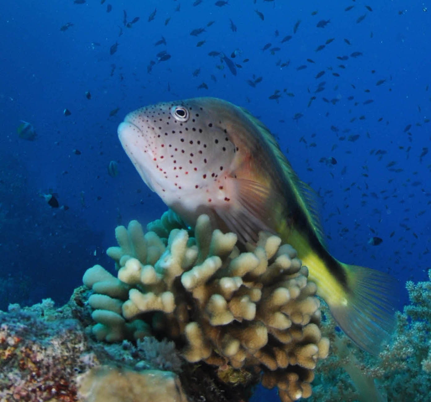 Hawkfish from Red Sea